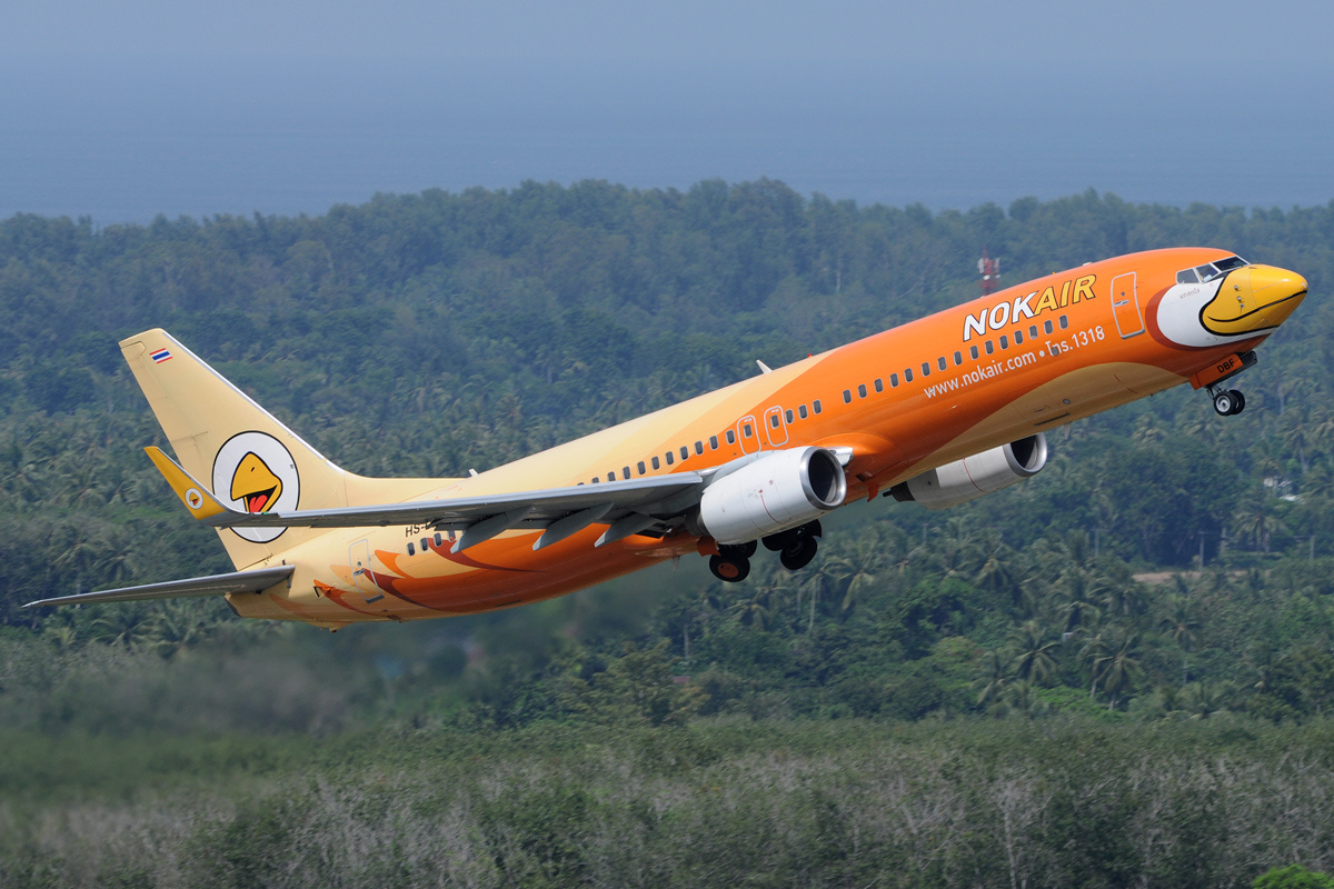 Nok Air Boeing 737-800 taking off from Phuket International Airport